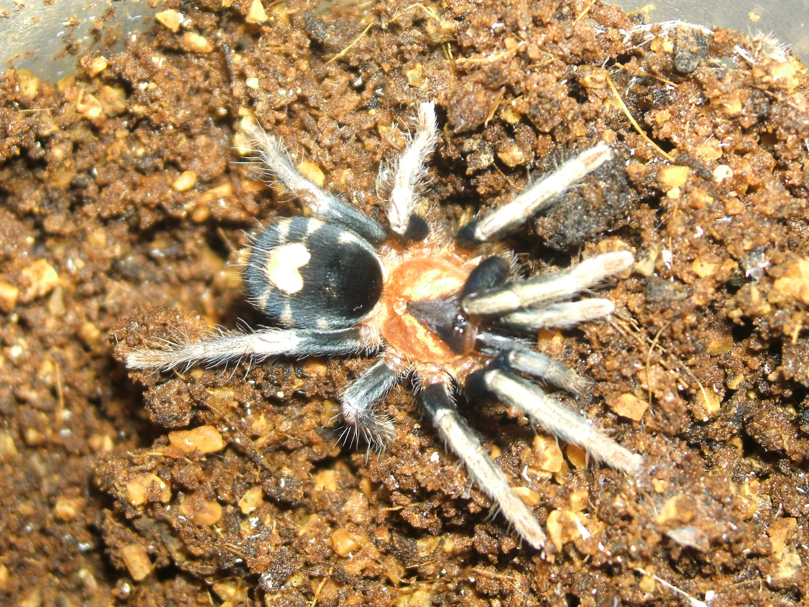 photo of a juvenile unsexed cyriocosmus elegans.